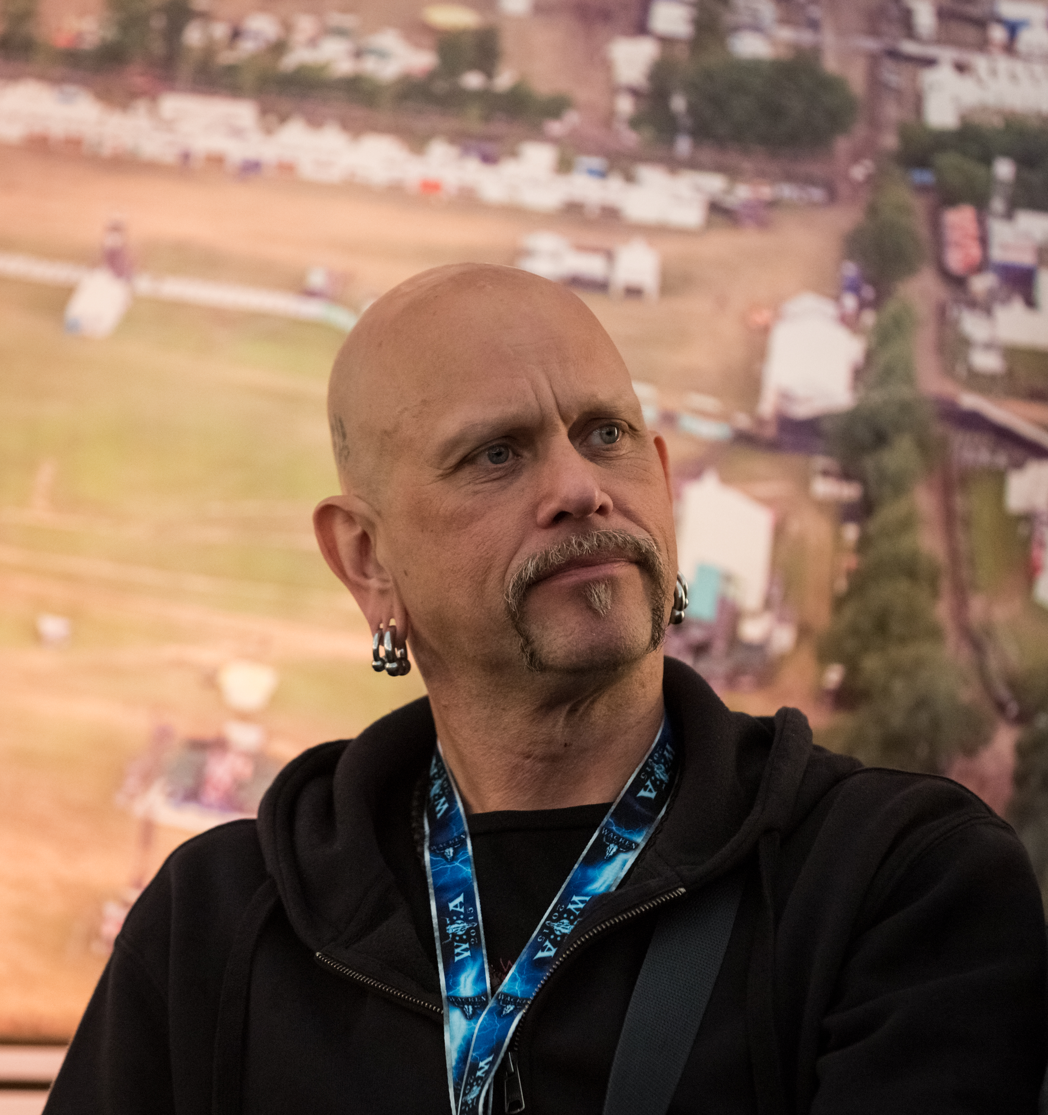 Ian Haugland of Europe at the press conference at Wacken Open Air 2015